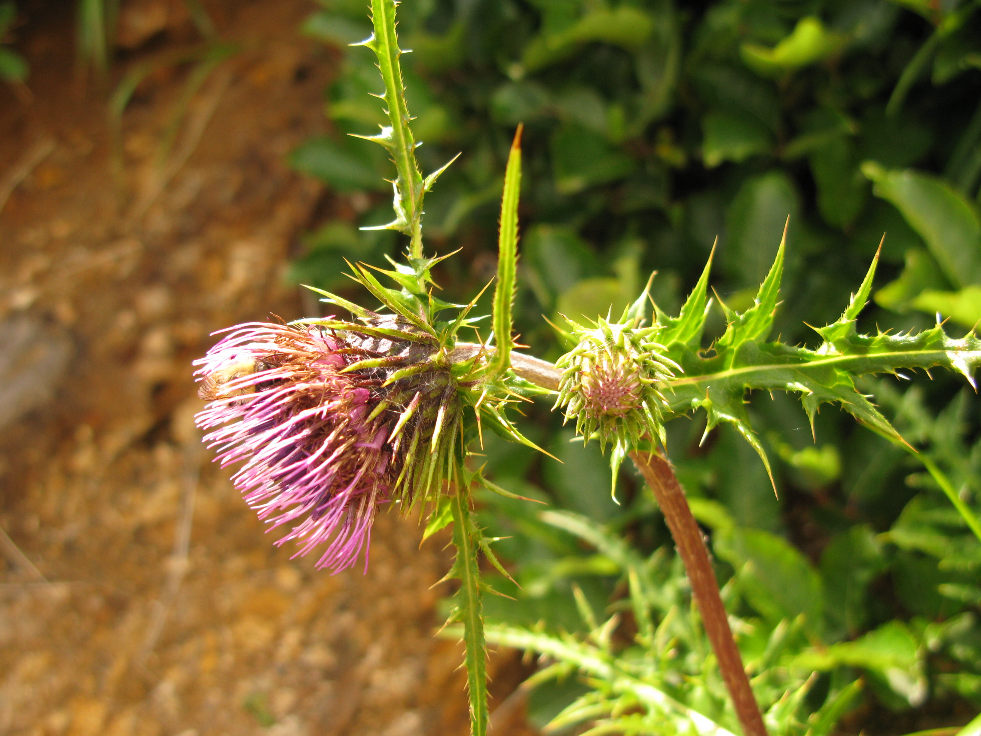 Cirsium nambuense,Mt.Nishiazuma-yama,Fukushima pref.,Japan